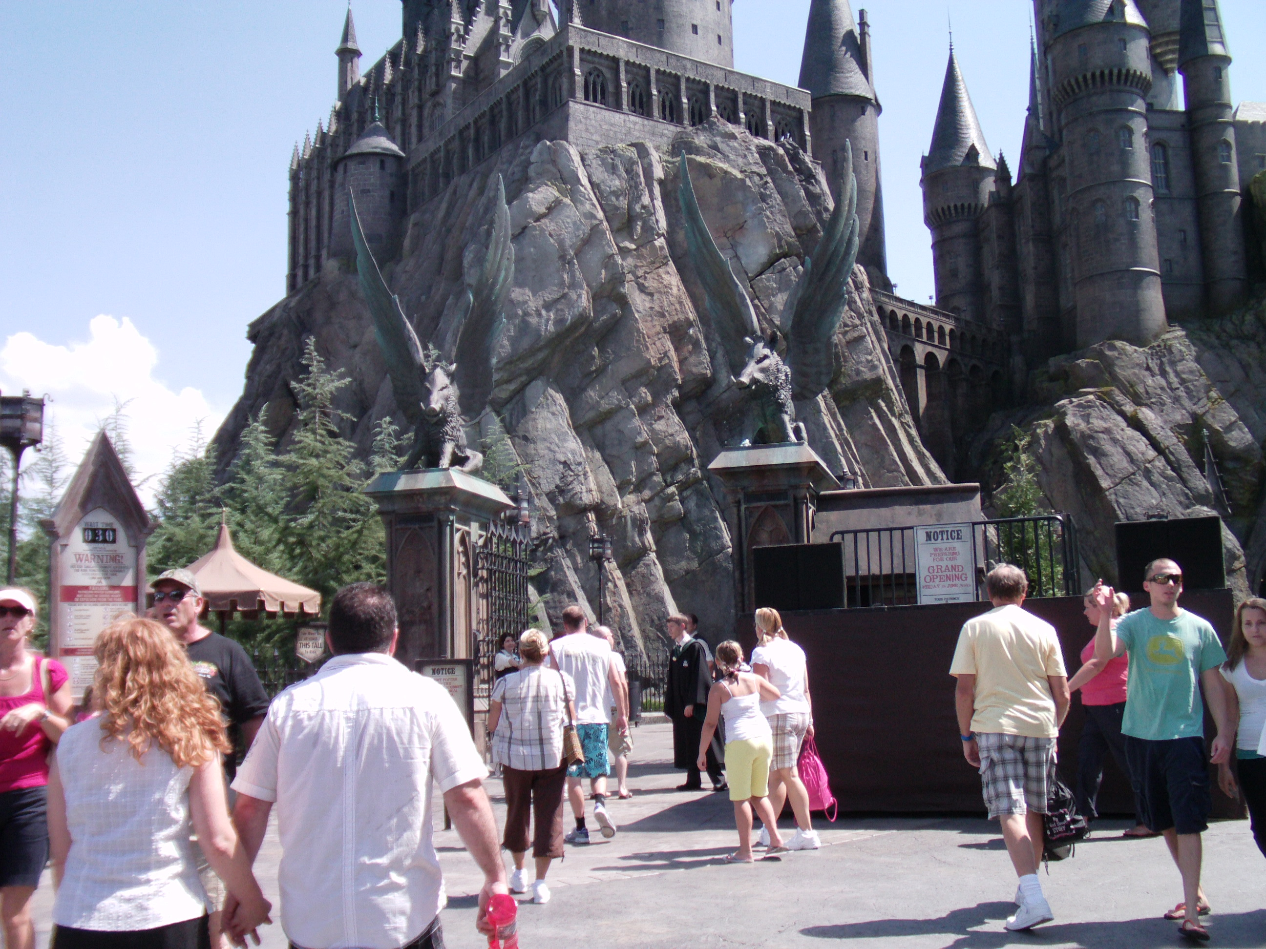 Entrance of Harry Potter and the Forbidden Journey at Islands of Adventure.